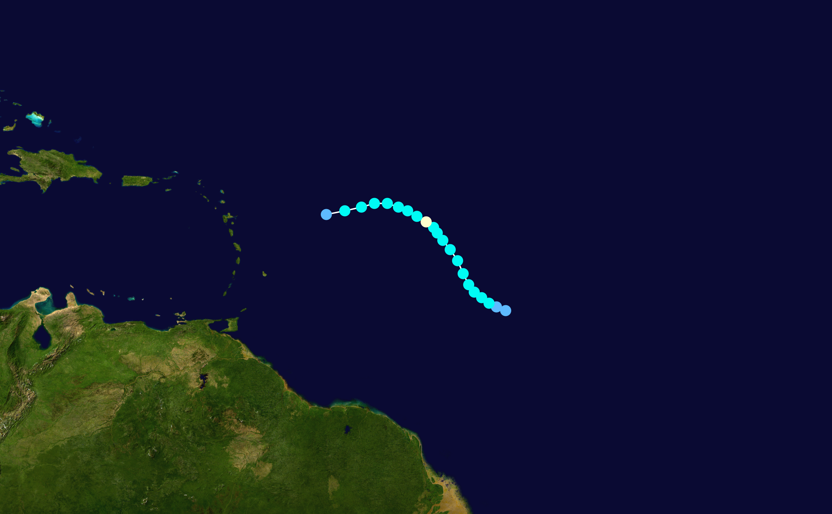 Hurricane Holly (1969) track. Uses the color scheme from the Saffir-Simpson Hurricane Scale.